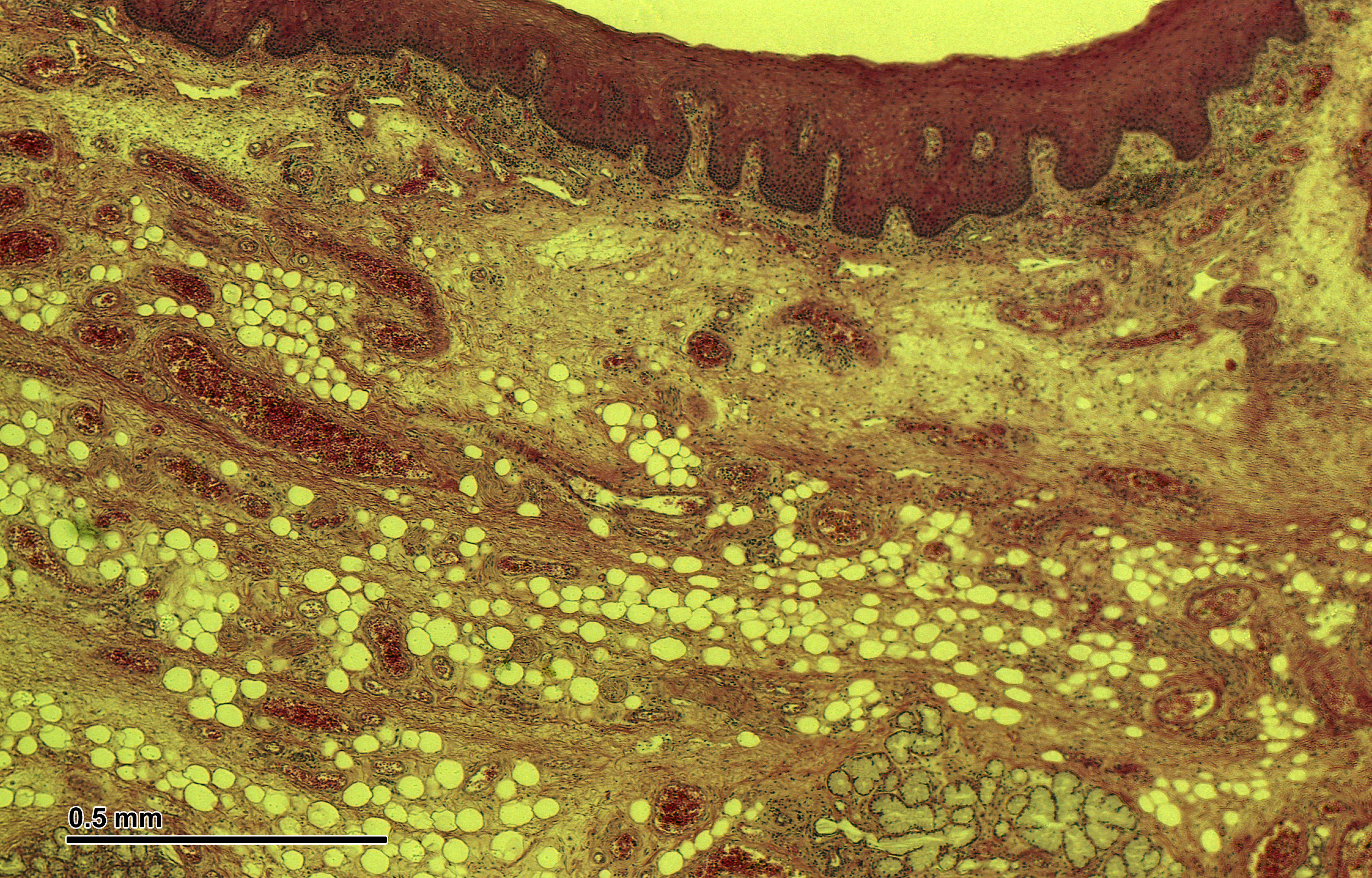 Human tongue: Section. Stain: Hematoxylin and eosin. Optical microscopy technique: Bright field. Magnification: 120x (for picture width 26 cm ~ A4 format).